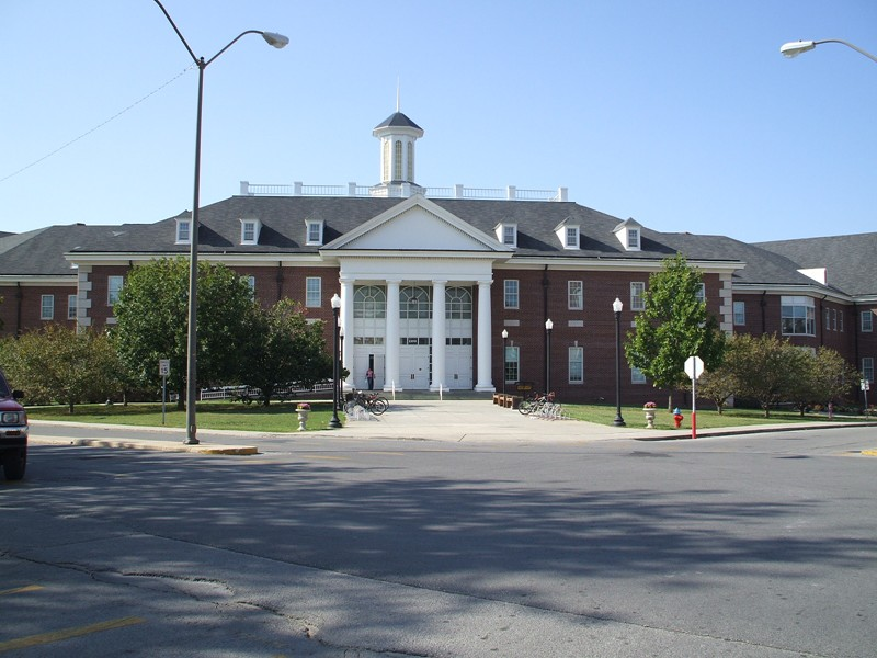 self-made file